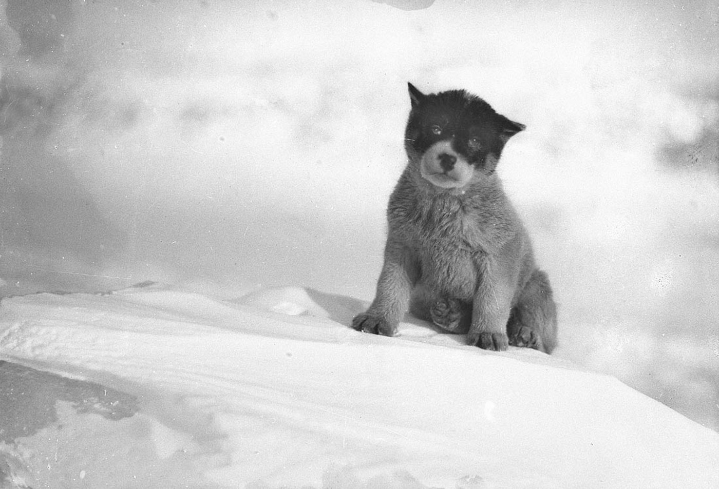 Blizzard a puppy photo taken on Antarctica expidition